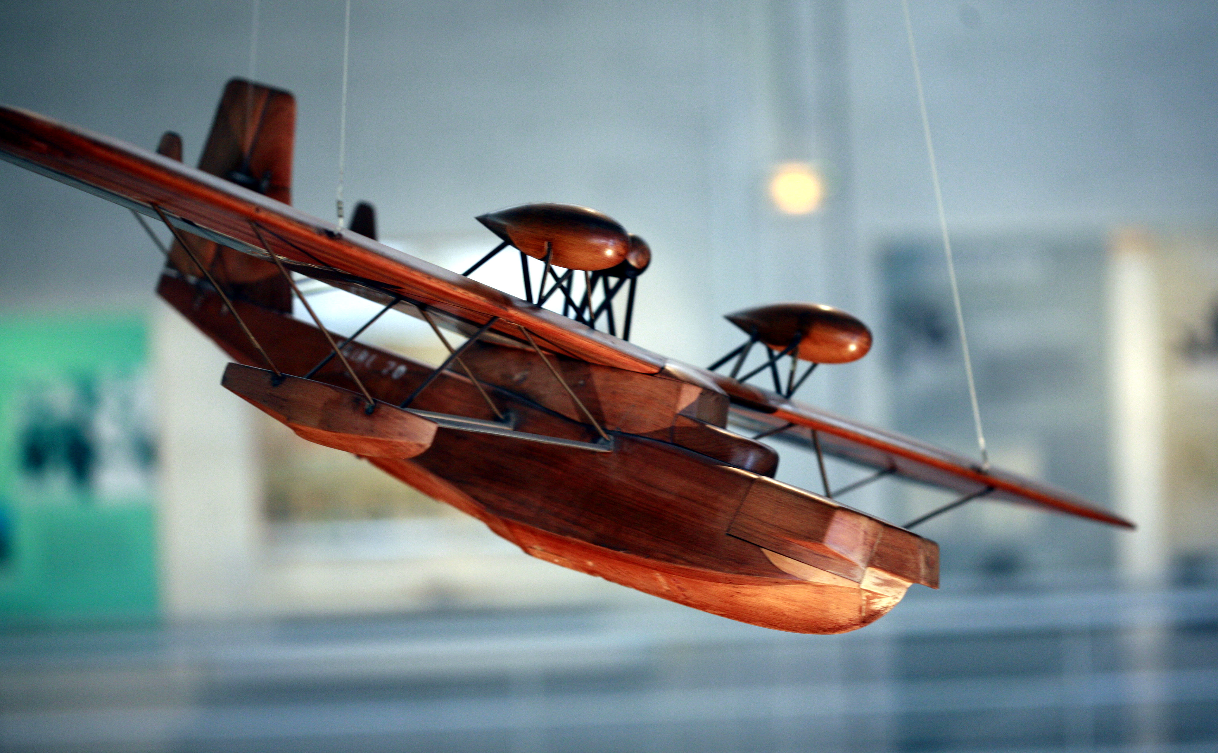 Wind tunnel model of a Loire 70 seaplane. On display at the Écomusée de Saint-Nazaire.